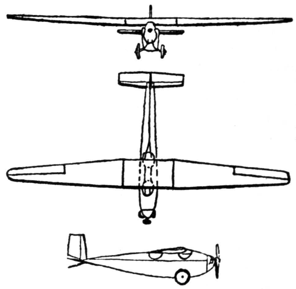 Messerschmitt M 17 3-view drawing from Le Document aéronautique August,1926